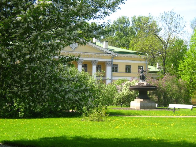 Russian Medical Military Academy. The main building in 2007 (Academika Lebedeva street, 6, St.-Petersburg, Russia) and the statue of Gigea